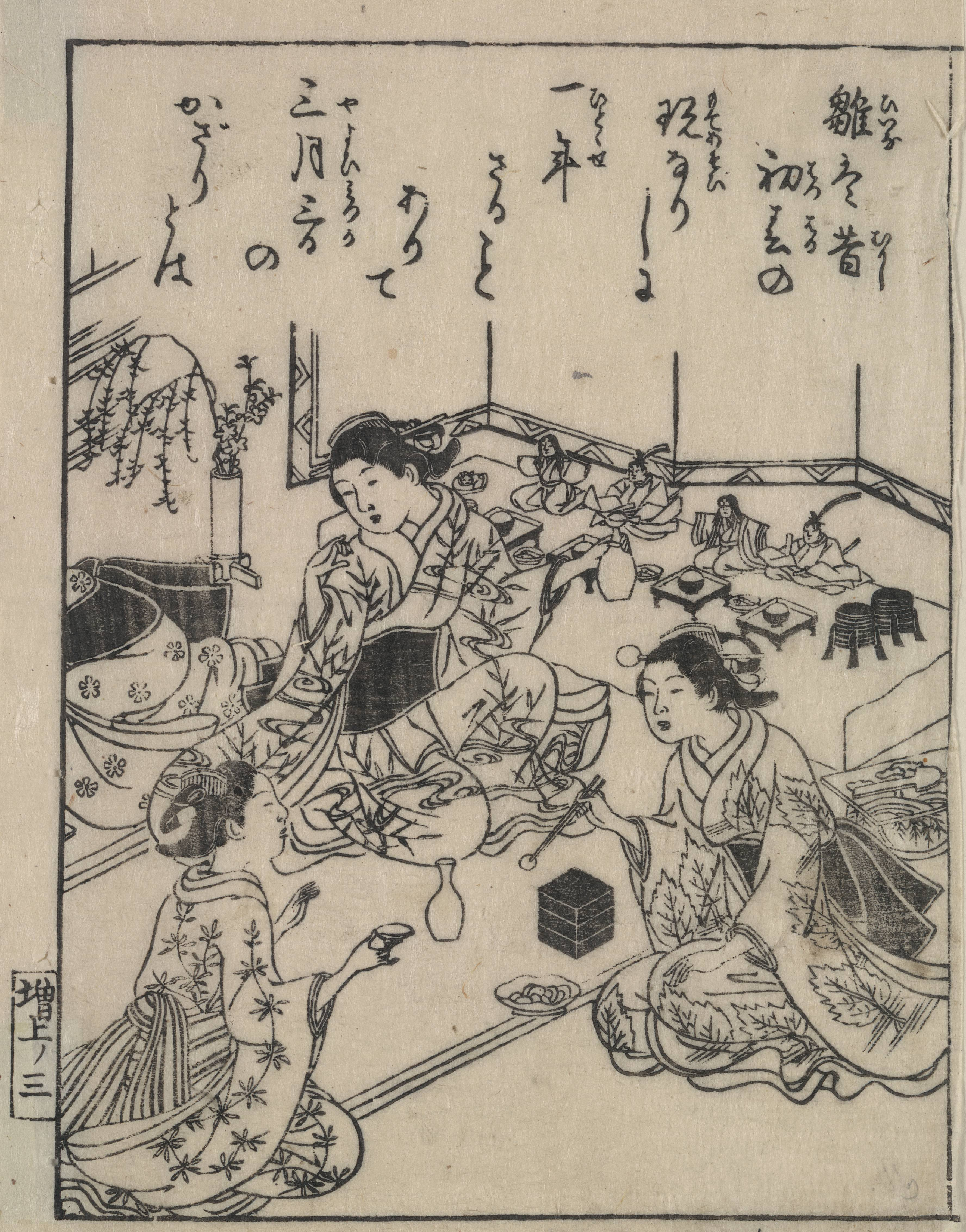 "The Doll Ceremony". 18th century Ukiyo-e woodcut. Japanese print from a book shows three richly dressed women or girls eating and drinking, probably celebrating Hina Matsuri (Girl's Day), as dolls sit in the background. Title and other information based on data written on mount and Richard Lane's Masters of the Japanese print, 1962, pp. 130-134.